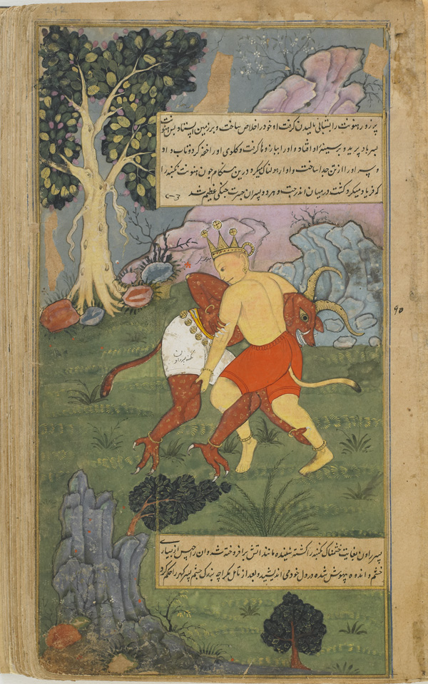 Folio from the Ramayana of Valmiki (The Freer Ramayana), Vol. 2, folio 242; recto: Hanuman vanquishes Nikumbha by wrenching off his head; verso: text 1597-1605 Qasim , (Indian, Mughal dynasty Opaque watercolor, ink, and gold on paper H: 27.5 W: 15.2 cm Northern India Gift of Charles Lang Freer F1907.271.242